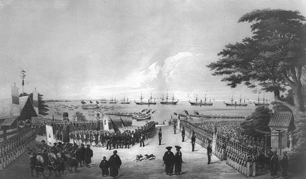 PERRY'S EXPEDITION TO JAPAN Landing of Commodore Perry, officers & men of the squadron, to meet the Imperial commissioners at Yoku-Hama July 14th 1853. Lithograph by Sarony & Co., 1855, after W. Heine.